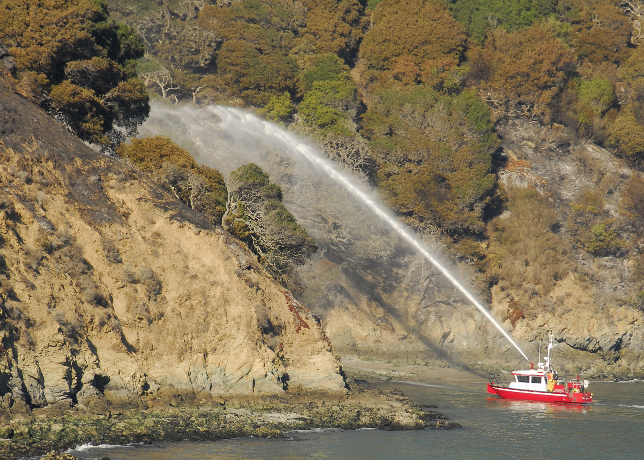 In 2006 the Tiburon fire department acquired a used 35 foot fireboat from LAFD. Two thirds of the cost were paid through a Port security grant from DHS. Original caption: “SAN FRANCISCO - A fireboat from the Southern Marin Fire District attempts to extinguish fires here Oct. 13, 2008. The Coast Guard and Southern Marin Fire District responded to fires that broke out on Angel Island Oct. 12, 2008. The CGC Sockeye acted as the On Scene Coordinator while Station Golden Gate transported firefighters and assets to the island. Station San Francisco also helped enforce a 100-yard safety and security zone around the island. (Coast Guard photo by Petty Officer 3rd Class Erik Swanson)” Virin = 081013-G-#####-002